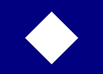 III Corps, Army of the Potomac, 2nd Division Badge